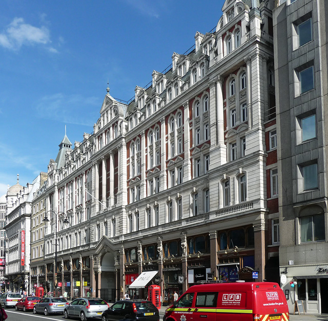 77-86 Strand